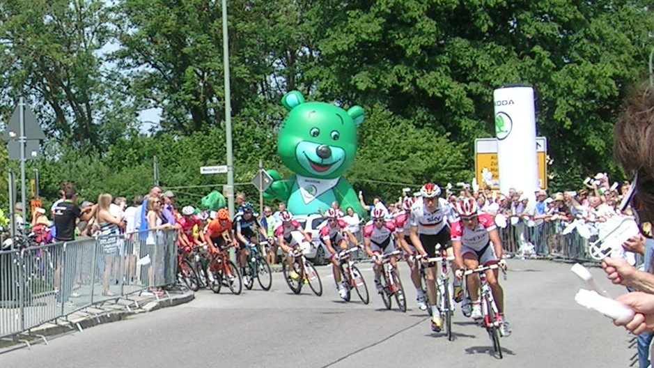 Bicycle race "Bayern Rundfahrt" at 29. May 2011 in Moosburg